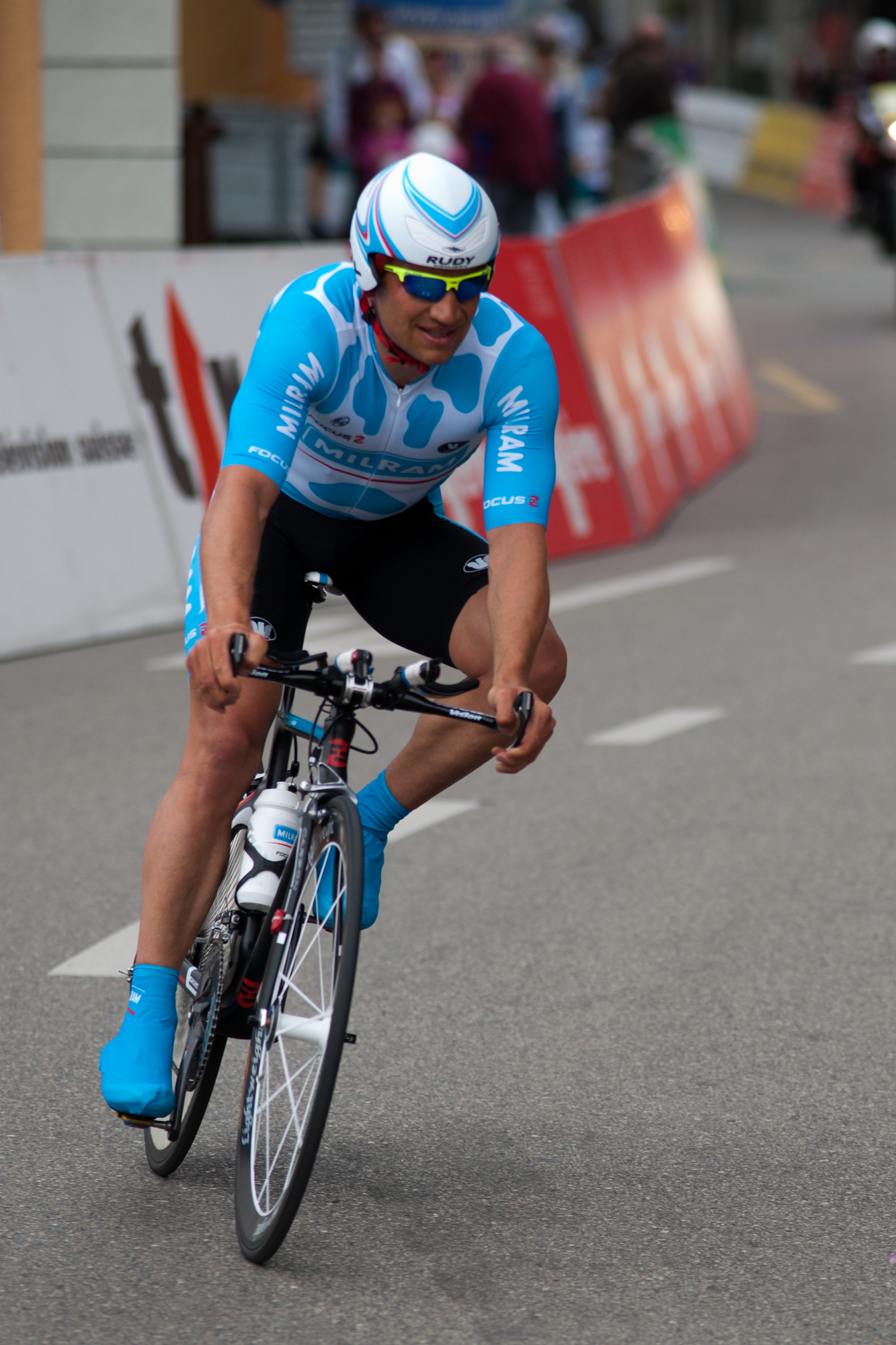 Robert Förster during the 3rd stage of the Tour de Romandie 2010.